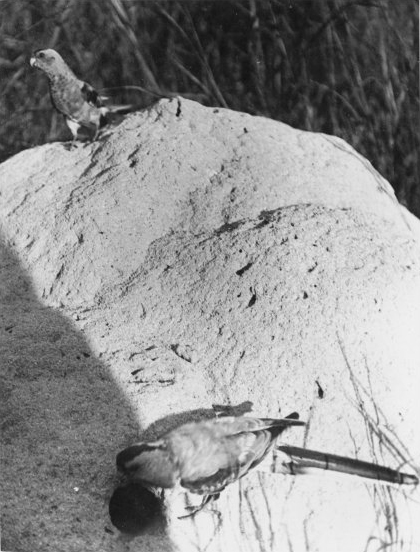 Photographed in the wild, Burnett River, Queensland, 1922. By Jerrard, C. H. H. (Cyril Henry H.), 1889-1943.